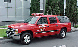 "Unless a copyright is indicated, information on the City of San Diego Web site is in the public domain and may be reproduced, published or otherwise used with the City of San Diego's permission. We request only that the City of San Diego be cited as the source of the information and that any photo credits, graphics or byline be similarly credited to the photographer, author or City of San Diego, as appropriate." [